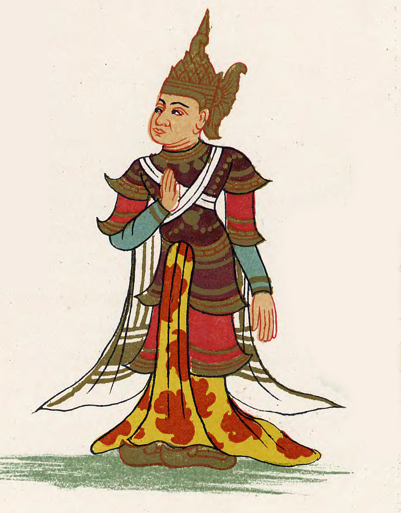 Bhummaso (guardian spirit of the soil) in Burmese representationမြန်မာဘာသာ: ဘုမ္မစိုး